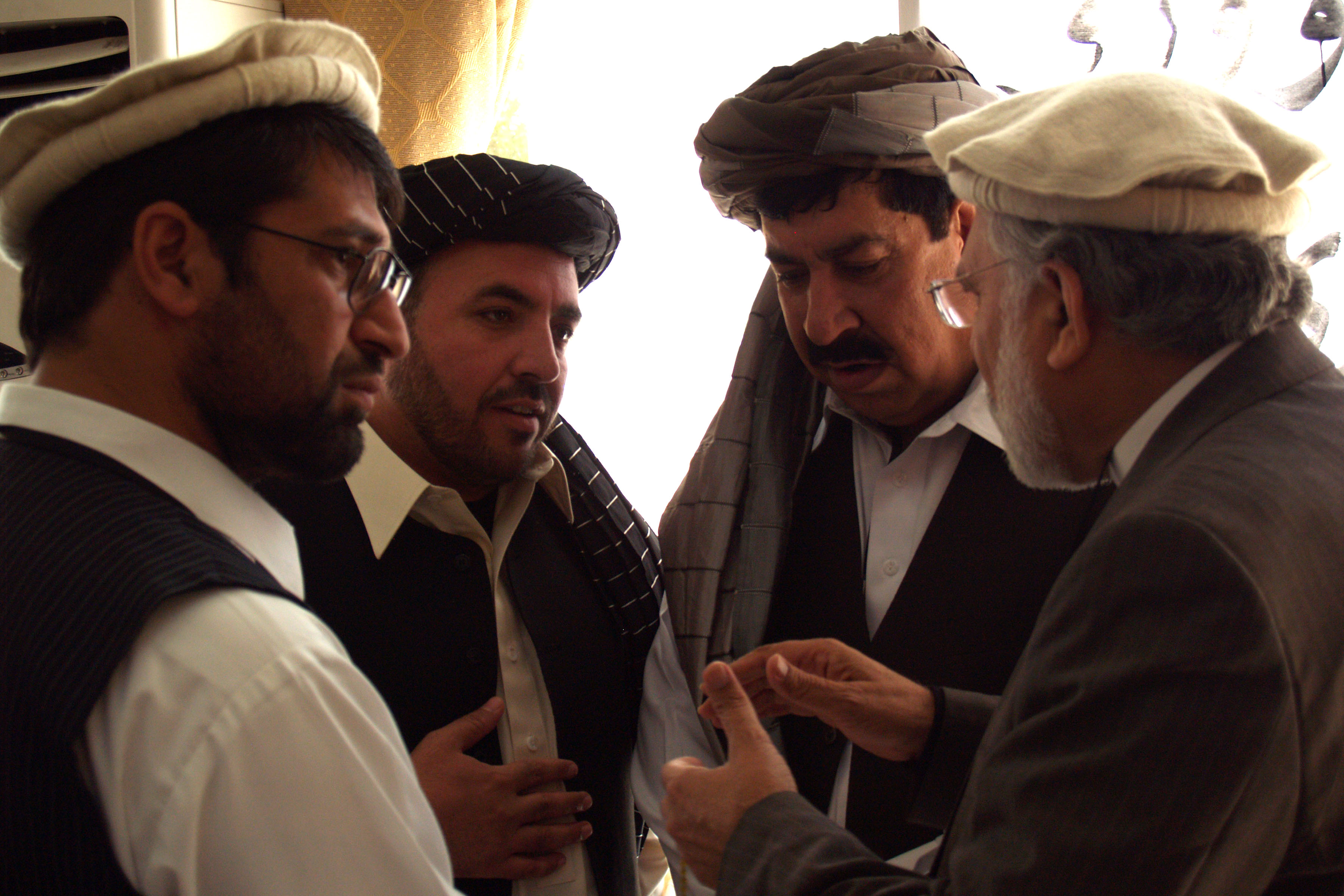 From left to right: Jamaluddin Badar, Nuristan provincial governor, Lutfullah Mashal, Langham provincial governor, Gul Agha Sherzai, Nangarhar provincial governor, and Fazlullah Wahidi, Kunar provincial governor, huddle together prior to the start of the first regional Jirga Oct. 22, 2009, to talk about peace, prosperity and the rehabilitation of Afghanistan. The governor's laid out their homegrown plan to improve the security and development of the four easternmost Afghanistan provinces to more than 300 leaders and elders from tribes, villages and districts in the four eastern provinces at the Nangarhar governor's compound. The overarching purpose of the Jirga is to engage anti-government elements and the local population to bring them closer to the government, while maintaining a close relationship with Coalition Forces. (Air Force photo by Capt. Tony Wickman/RELEASED)